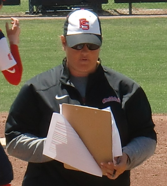 Trisha Ford, then head softball coach at Fresno State, walks toward the dugout during a game at San Jose State University on April 30, 2016.